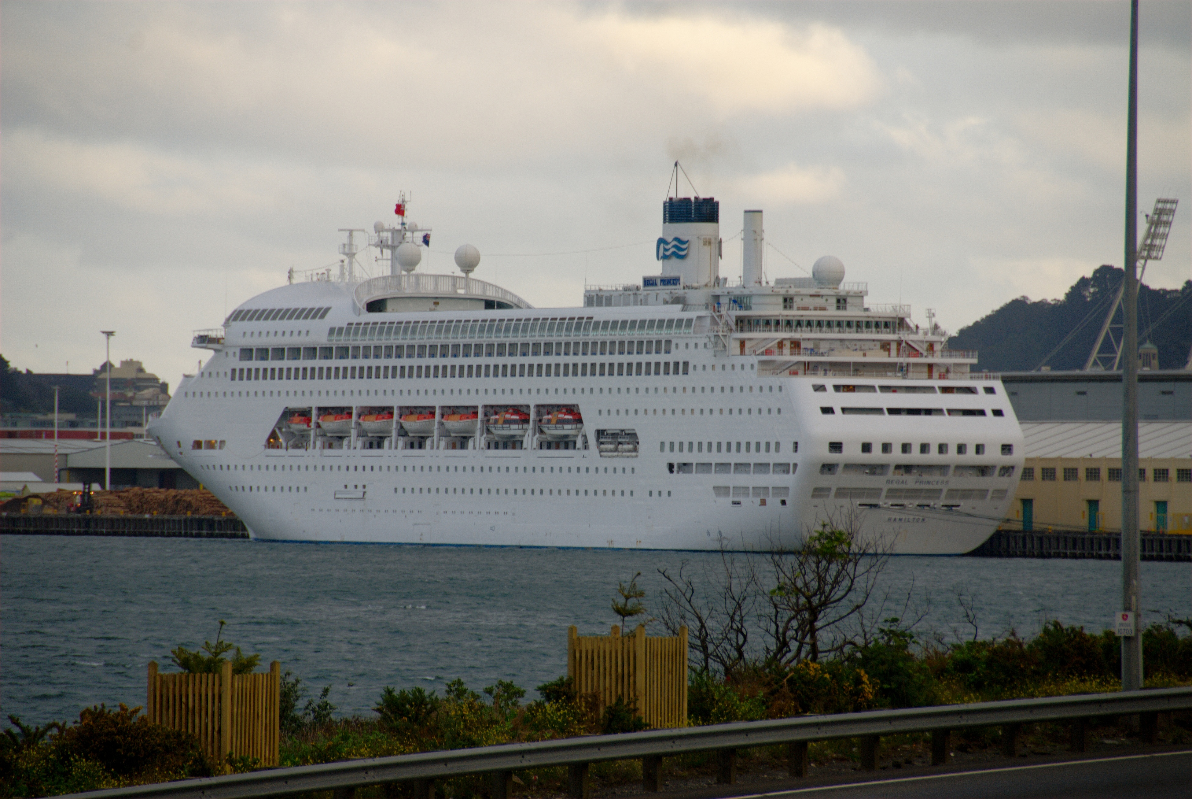 Regal Princess in Wellington, immediately prior to being renamed to Pacific Dawn IMO 8521232